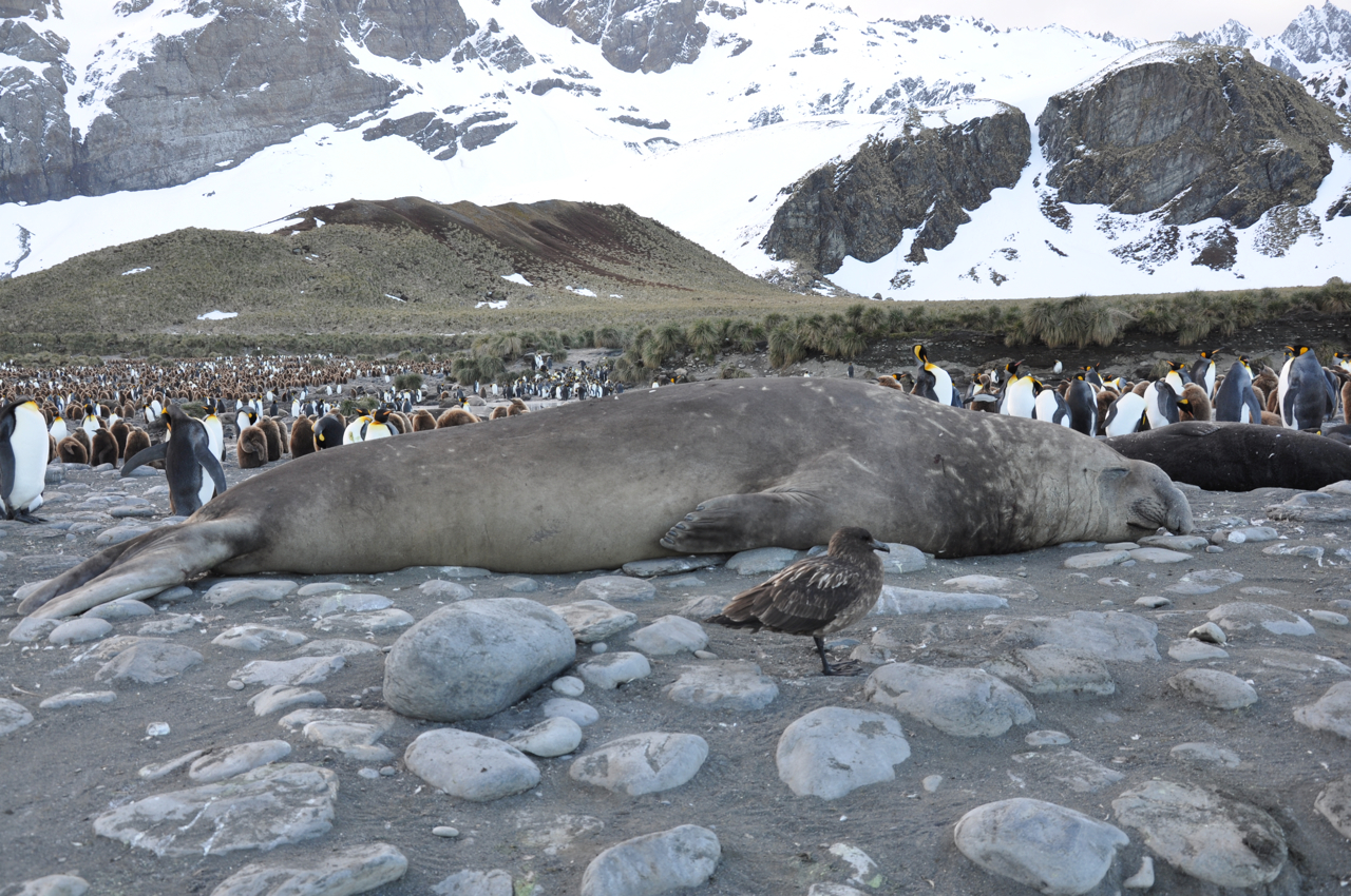 A Southern Elephant Seal (Mirounga leonina), Male, sleeping on the beach of Gold Harbour, South Georgia